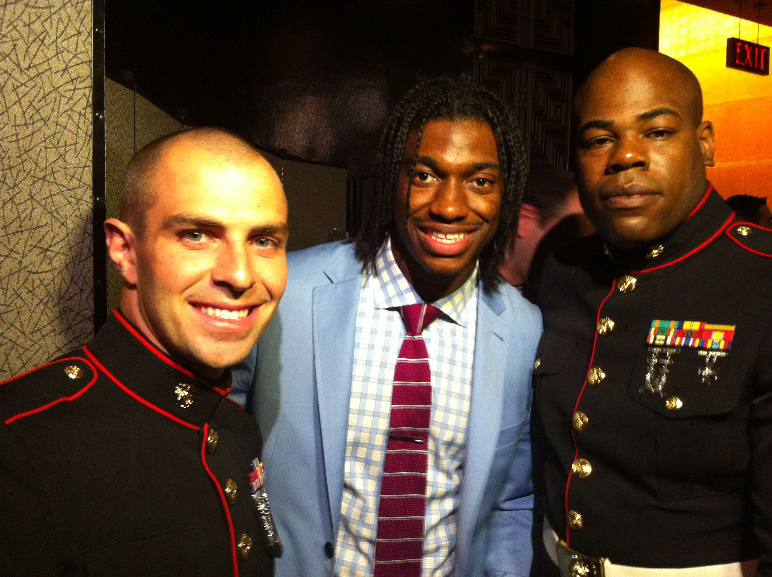 Sgt. Luke Boyd (L) and Staff Sgt. Marlon Green pose for a picture with Robert Griffin III, drafted second overall at the 2012 NFL Draft on April 26 at Radio City Music Hall. (Official Marine Corps photo by Gunnery Sgt. Matthew Butler / RELEASED)